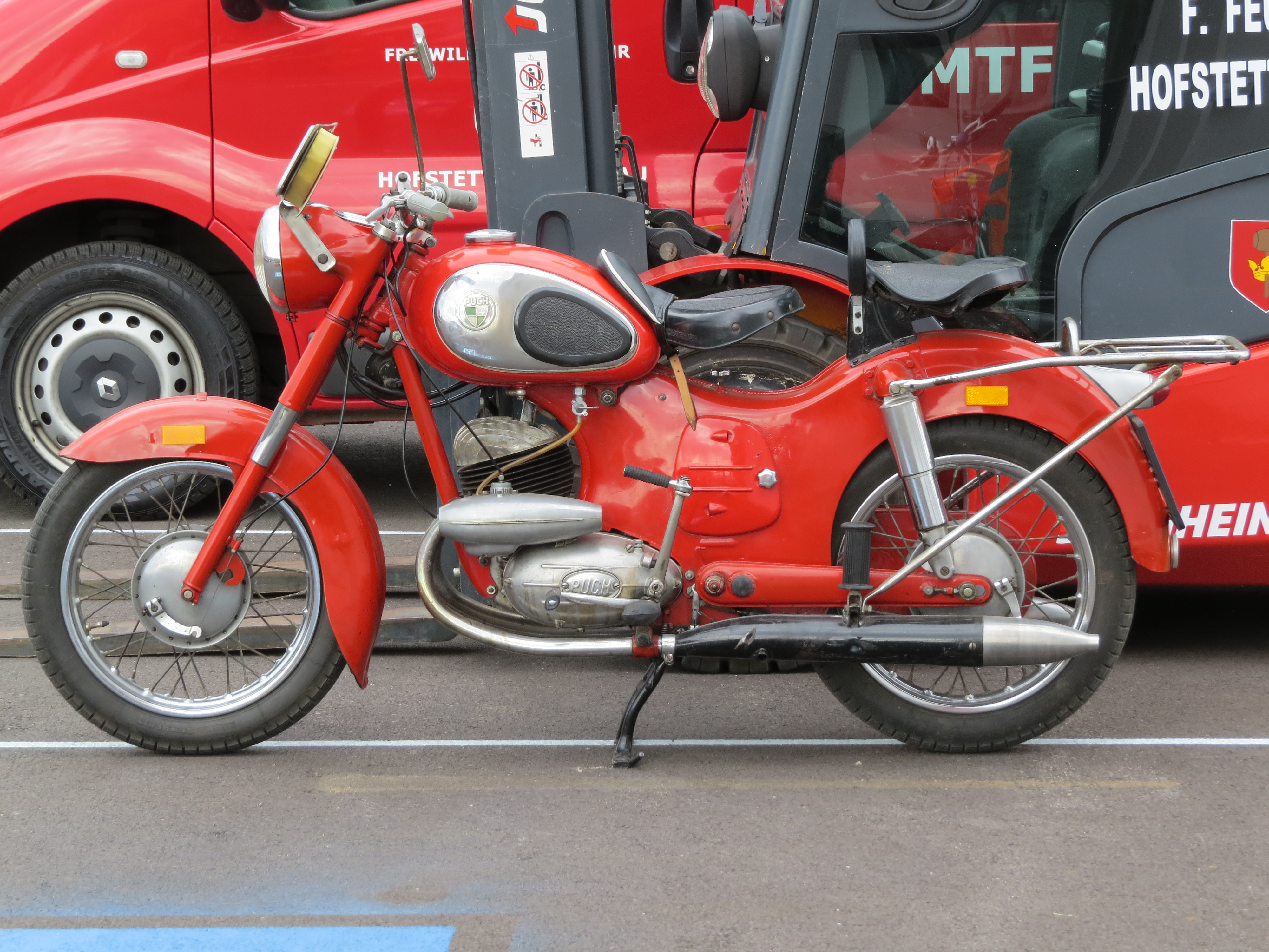 Puch 175 SV at opening ceremony of new fire station Hofstetten-Grünau, Austria